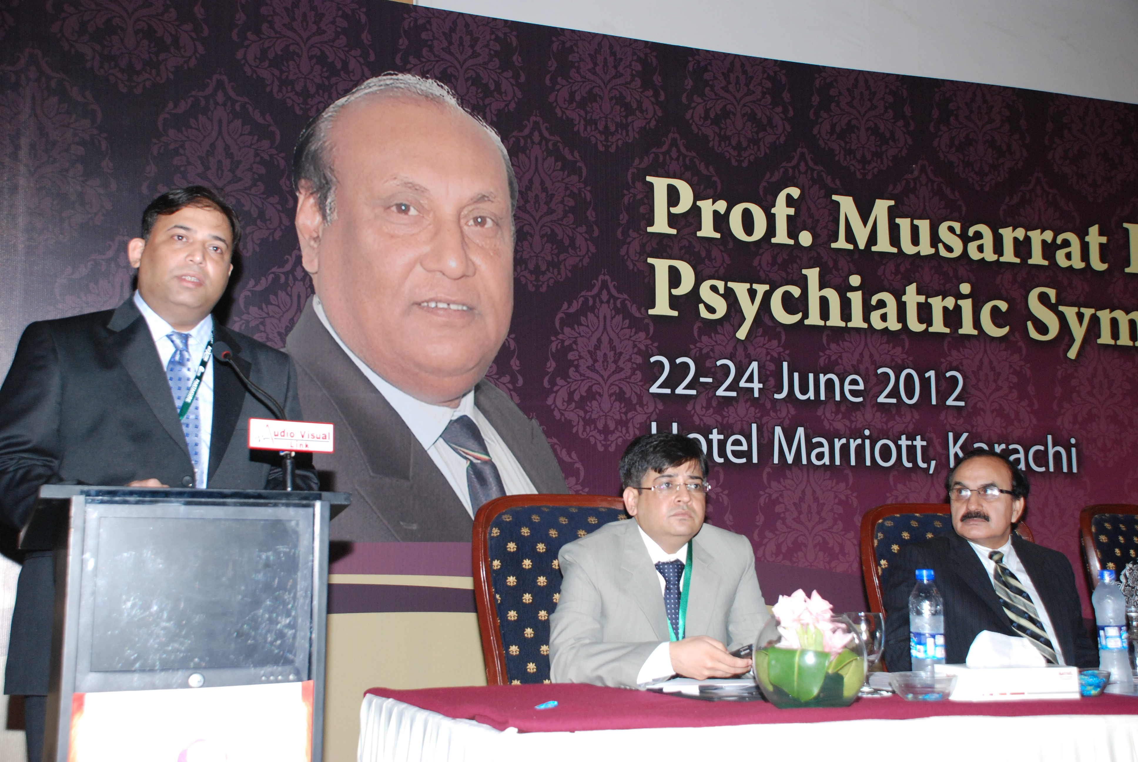 Prof Musarrat Hussain Memorial Psychiatric Symposium